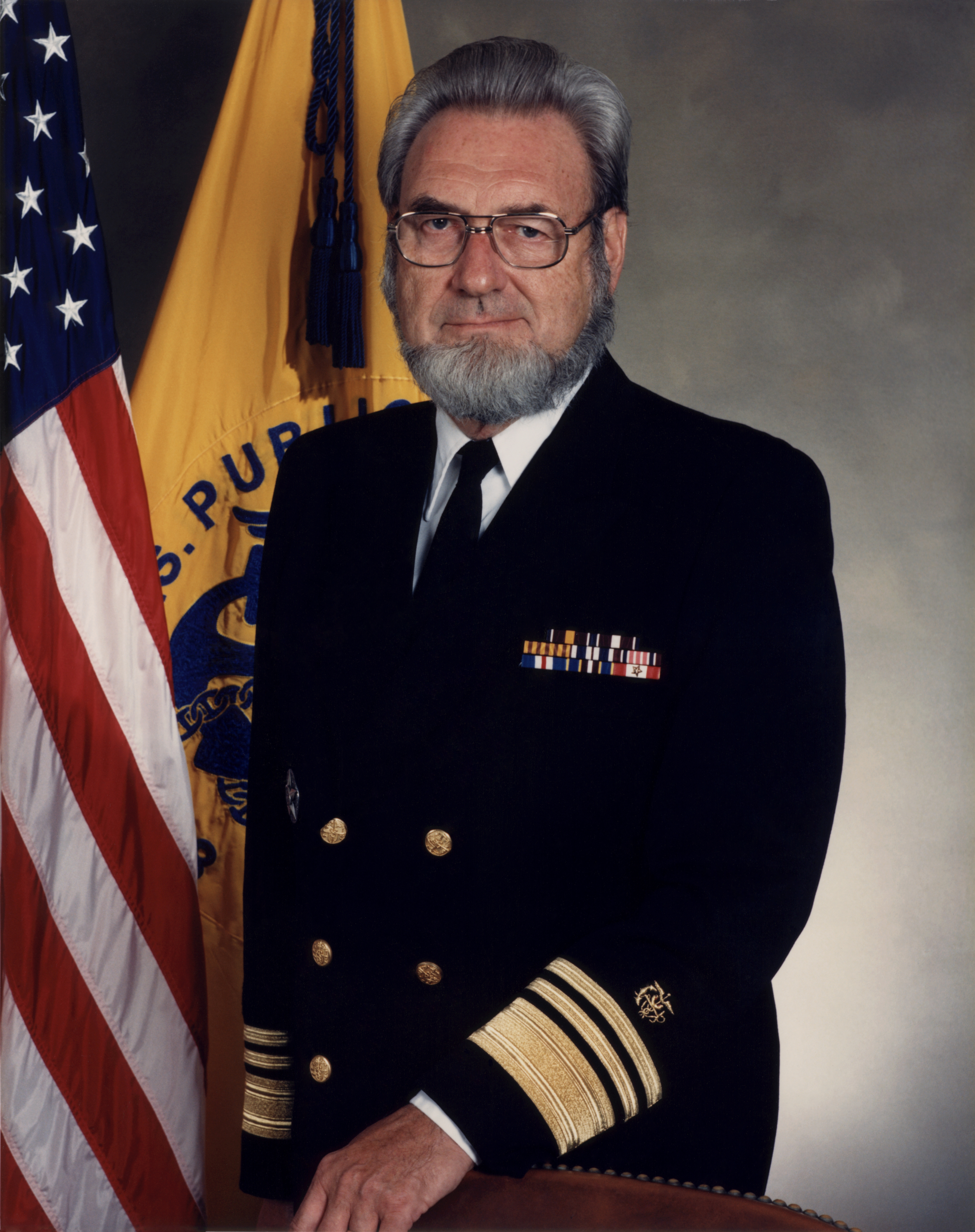 In this portrait Dr. Koop wears his formal uniform and sits in front of the American flag and the flag of the U.S. Public Health Service. Koop was the first U.S. Surgeon General in a generation to wear the Surgeon General's uniform, a uniform akin to that of a rear admiral of the Navy, though he is shown here as wearing the rank of vice admiral. He thought that wearing the uniform would help to restore morale and a sense of dignity to the Commissioned Corps of the U.S. Public Health Service, which the Surgeon General commands and which had been buffered by personnel cuts and uncertainty about its mission in the late 1970s and early 1980s. This is a retouched picture, which means that it has been digitally altered from its original version. Modifications: Dust removed, levels adjusted, border cropped, etc..